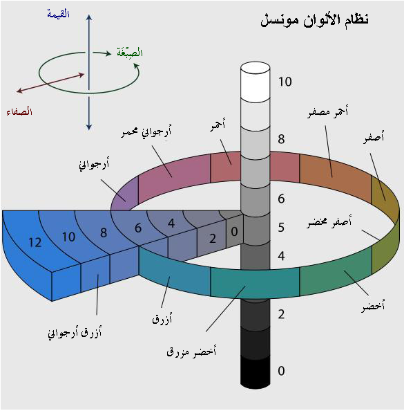 The Munsell color system. The image shows: * The neutral values in steps of 1 from 0 to 10 * A circle of 10 hues at value 5 and chroma 6 * The chromas of purple-blue in steps of 2 from 0 to 12, at value 5 The colors should be reasonably accurate conversions of Munsell colors into sRGB. Created by me, jacobolus with Adobe Illustrator This diagram is hereby released under the Creative Commons Attribution ShareAlike 2.5 license.